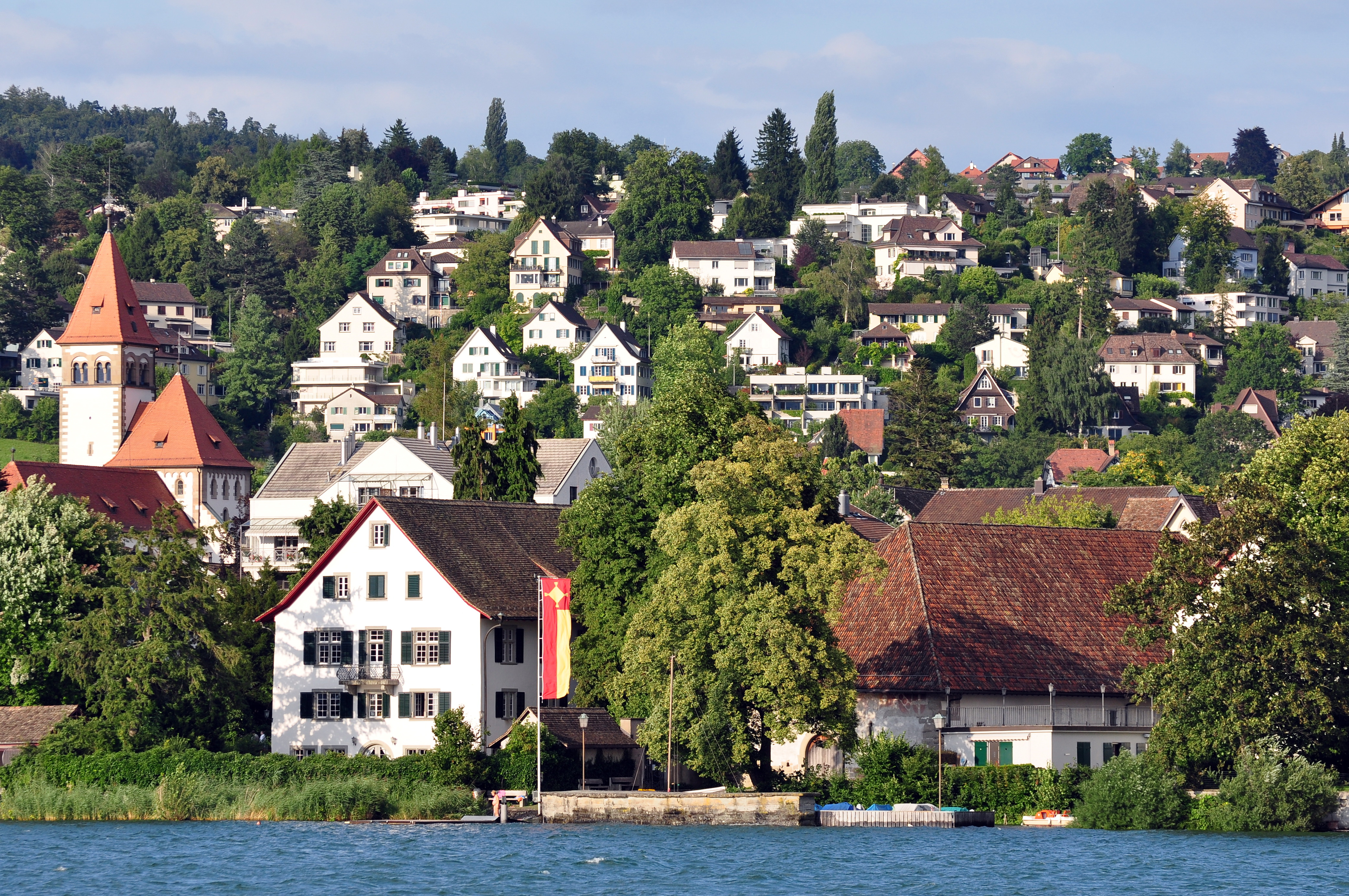 Küsnacht (Switzerland) as seen from ZSG paddle steamship Stadt Rapperswil